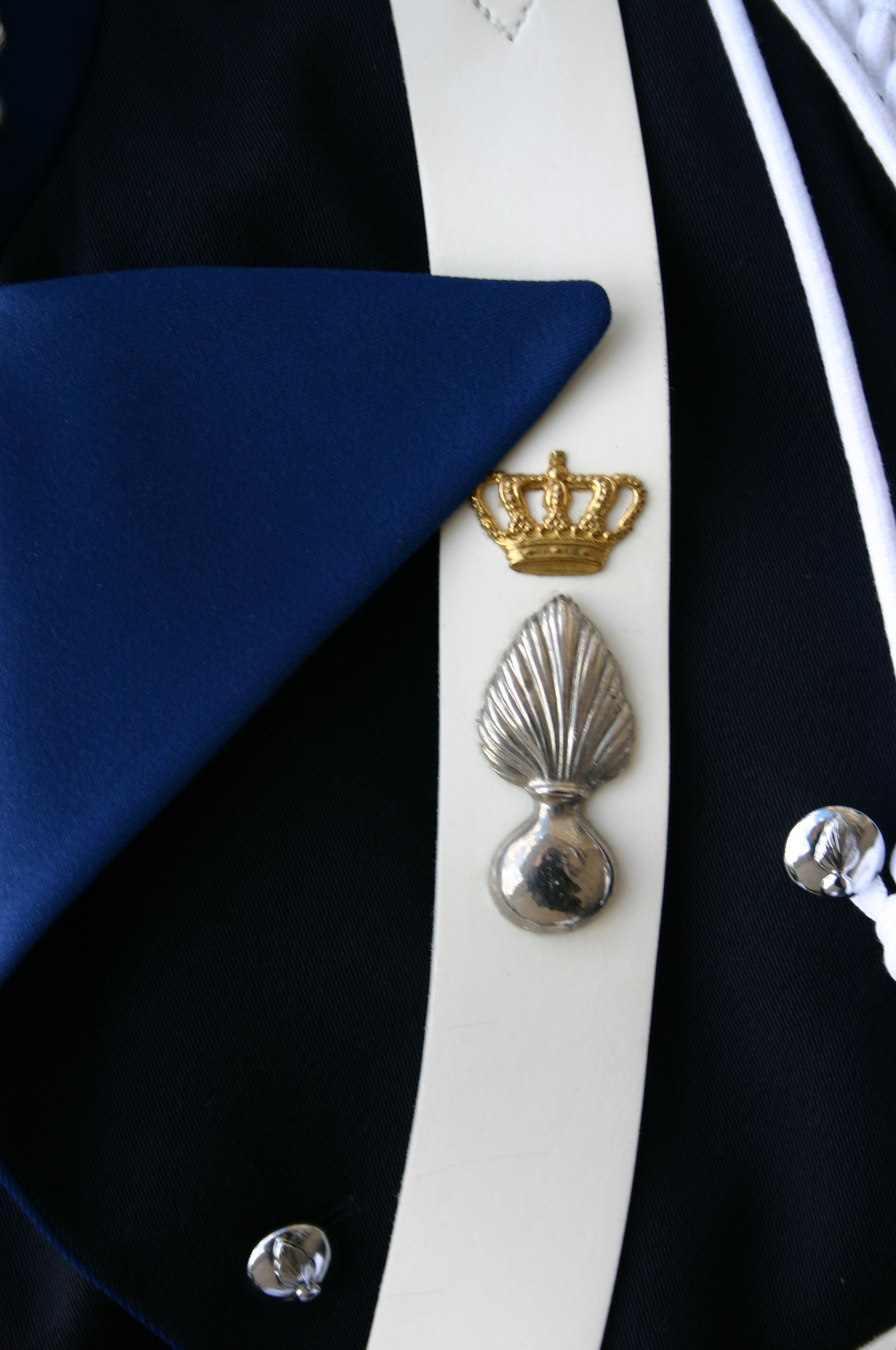 The Grenade.